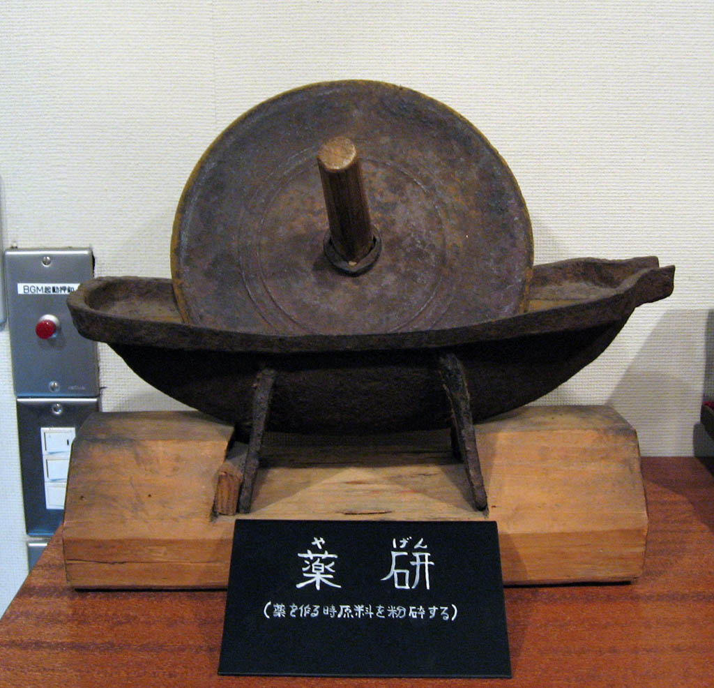 Yagen, as Japanese traditional Pestle and mortar for medicine.